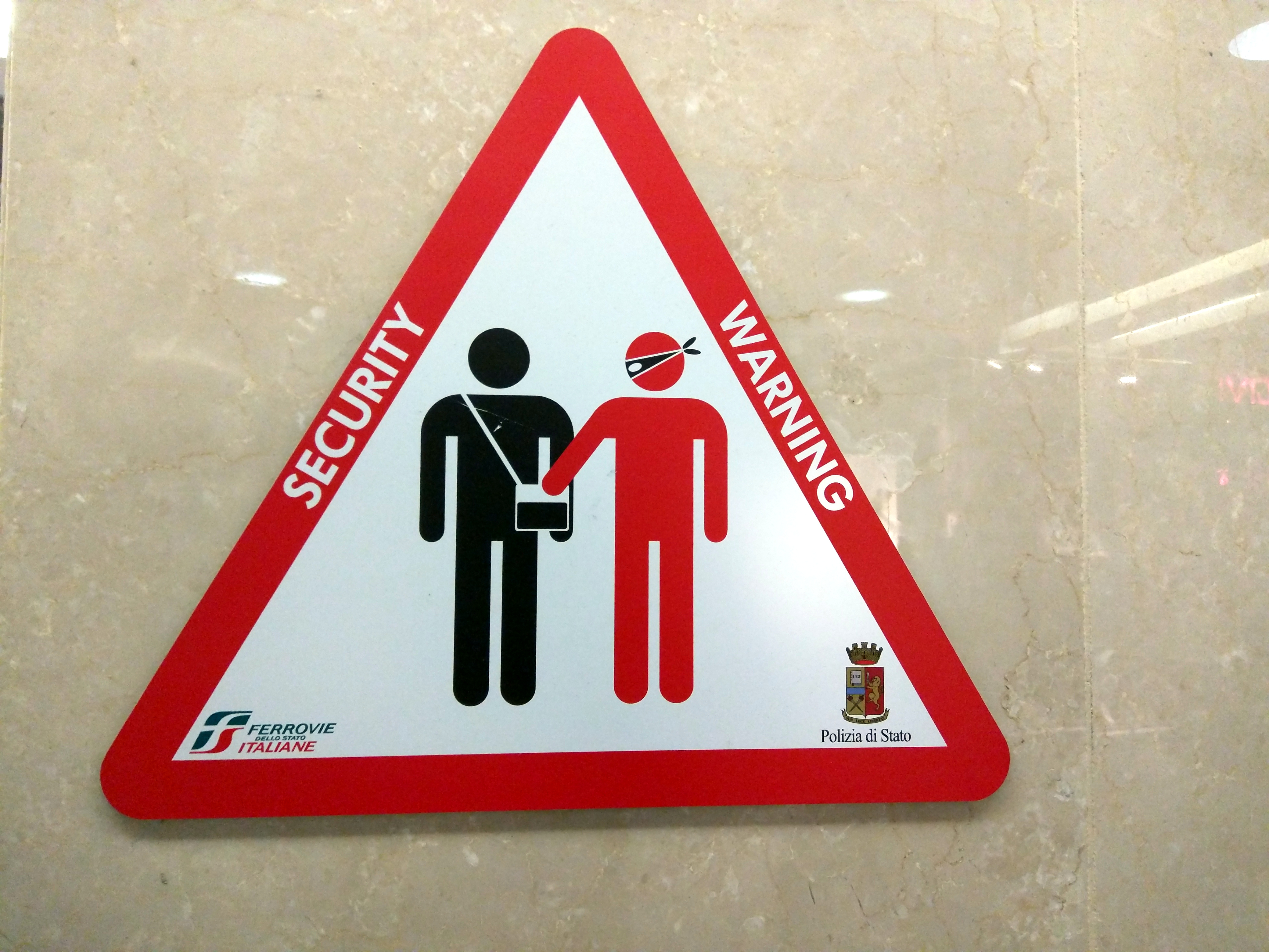 Pickpocket warning sign, train station, Turin, Italy